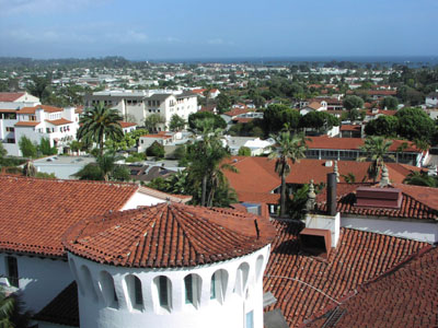 Santa Barbara, red tile roofs from courthouse tower, version 2 Photograph taken from the top of the Santa Barbara County Courthouse, March 20, 2005, by Antandrus, looking towards the harbor and showing the trademark red tile roofs of the town